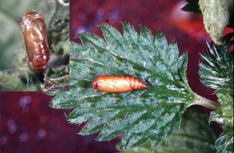 Anthophila threnodes